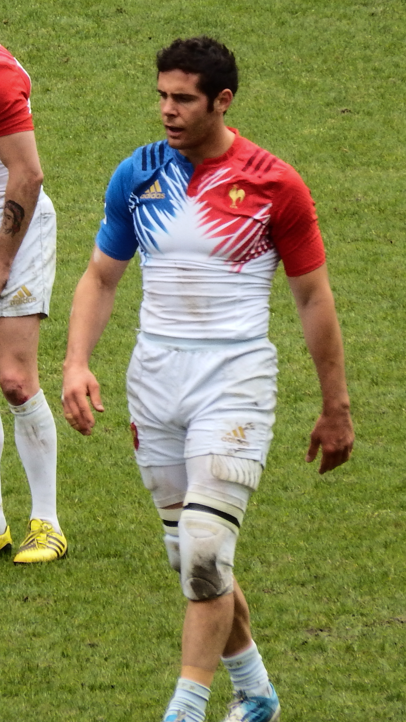 Paris Sevens 2016 — 15 May 2016, stade Jean-Bouin. Match between: France — Kenya